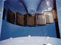 Picture of a flap turbine impeller